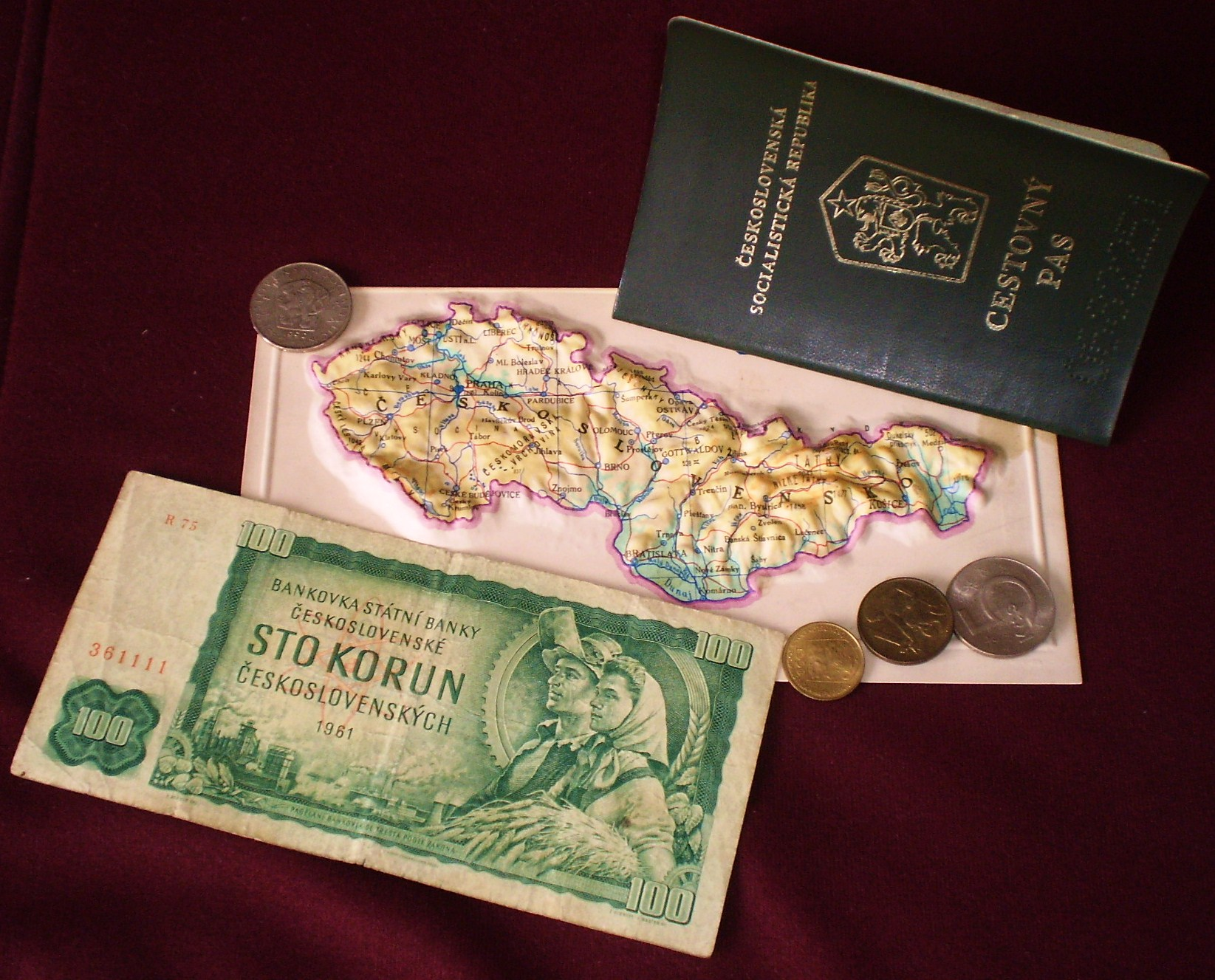 The formal attributes of CSSR, map-passport-banknote-money